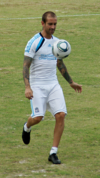 Portuguese football player, Raul Meireles, during Liverpool FC pre-season training in Singapore.